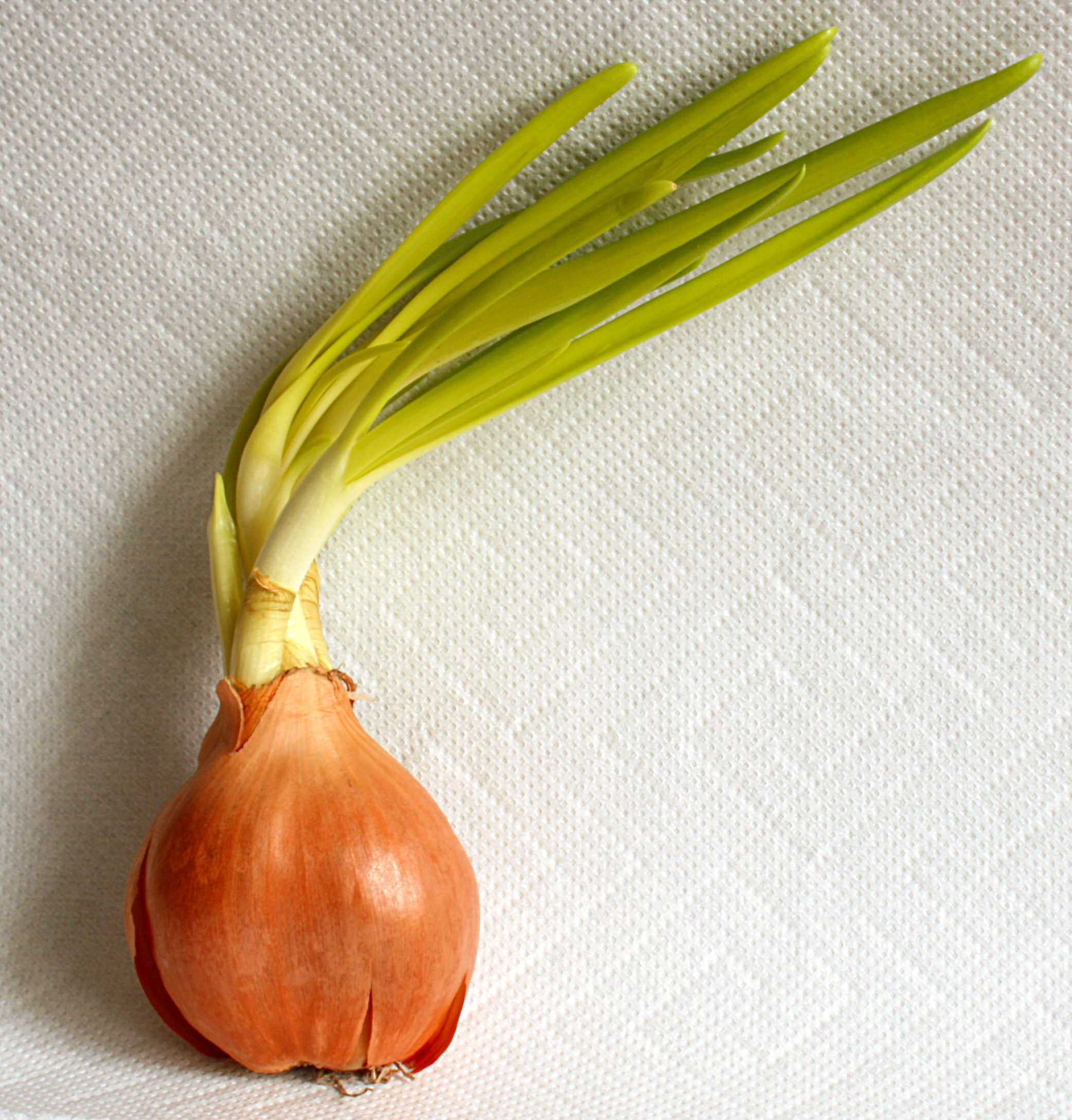 A sprouting onion with green leaves